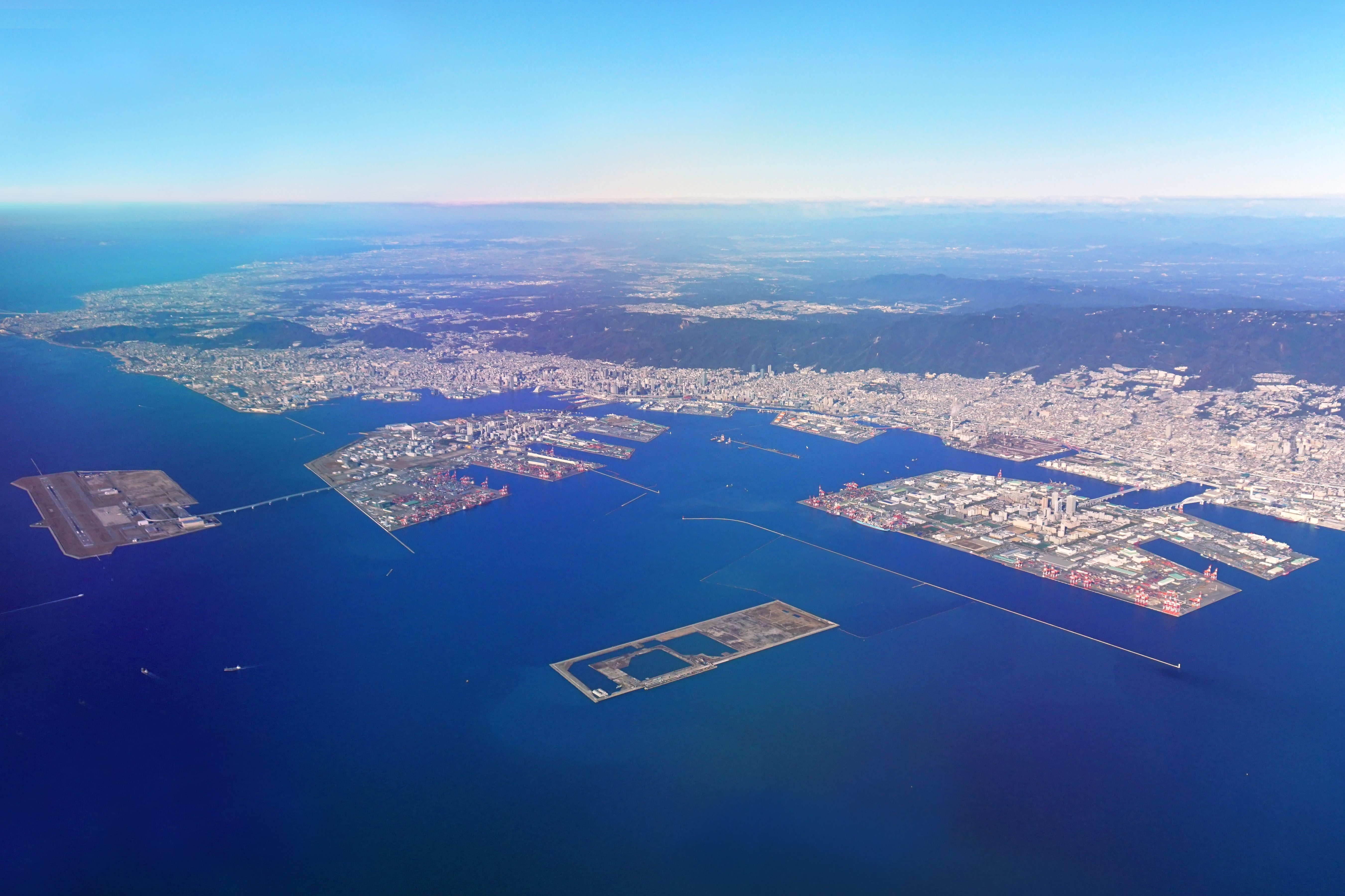 Port of Kobe from the sky in Kobe City, Hyogo prefecture, Japan